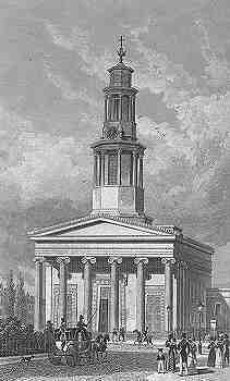 St Pancras New Church in London in 1827 or 1828 - engraved print by Thomas Hosmer Shepherd (1793 to 1864) who was employed by Frederick Crace for a series of drawings of London. Many of the engravings include figures, carriages or boats. Originally produced for Shepherd's "Metropolitan Improvements; or London in the Nineteenth Century" (1826 to 1827).